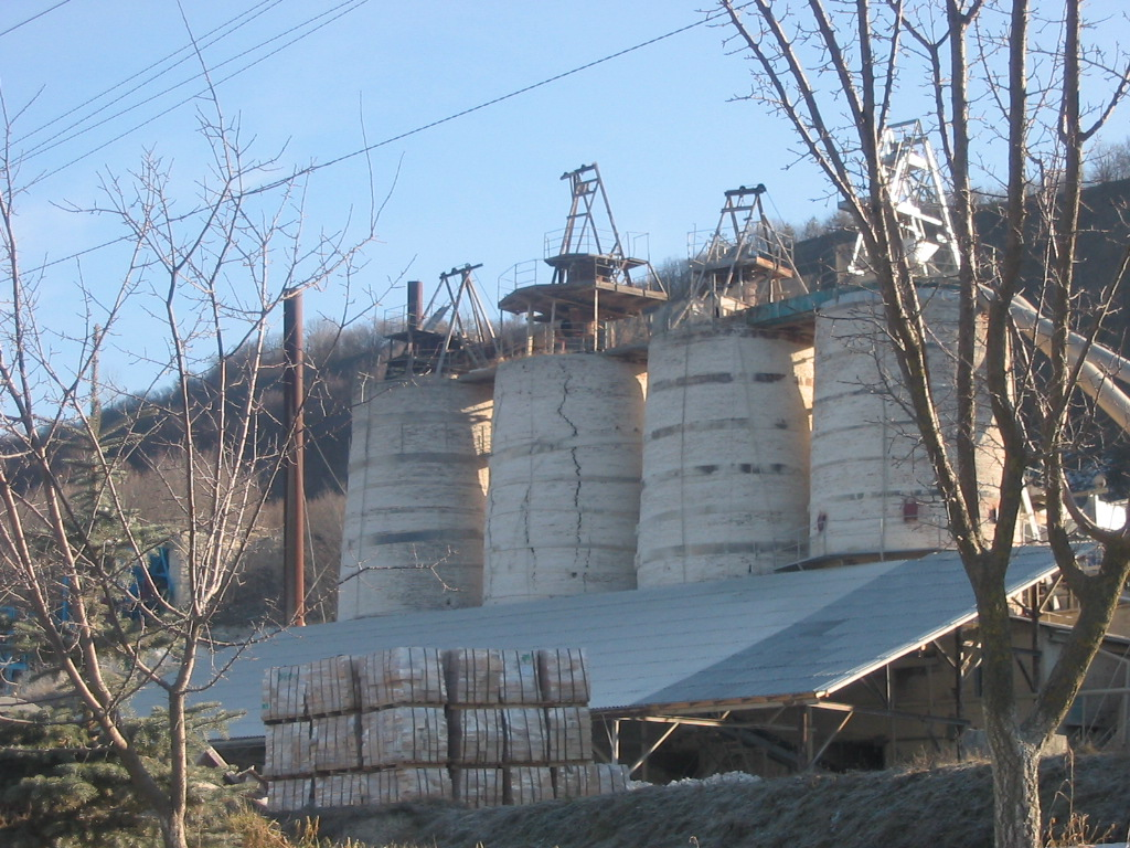 Lime-stone slaking plant in Pidvysoke, western Ukraine .